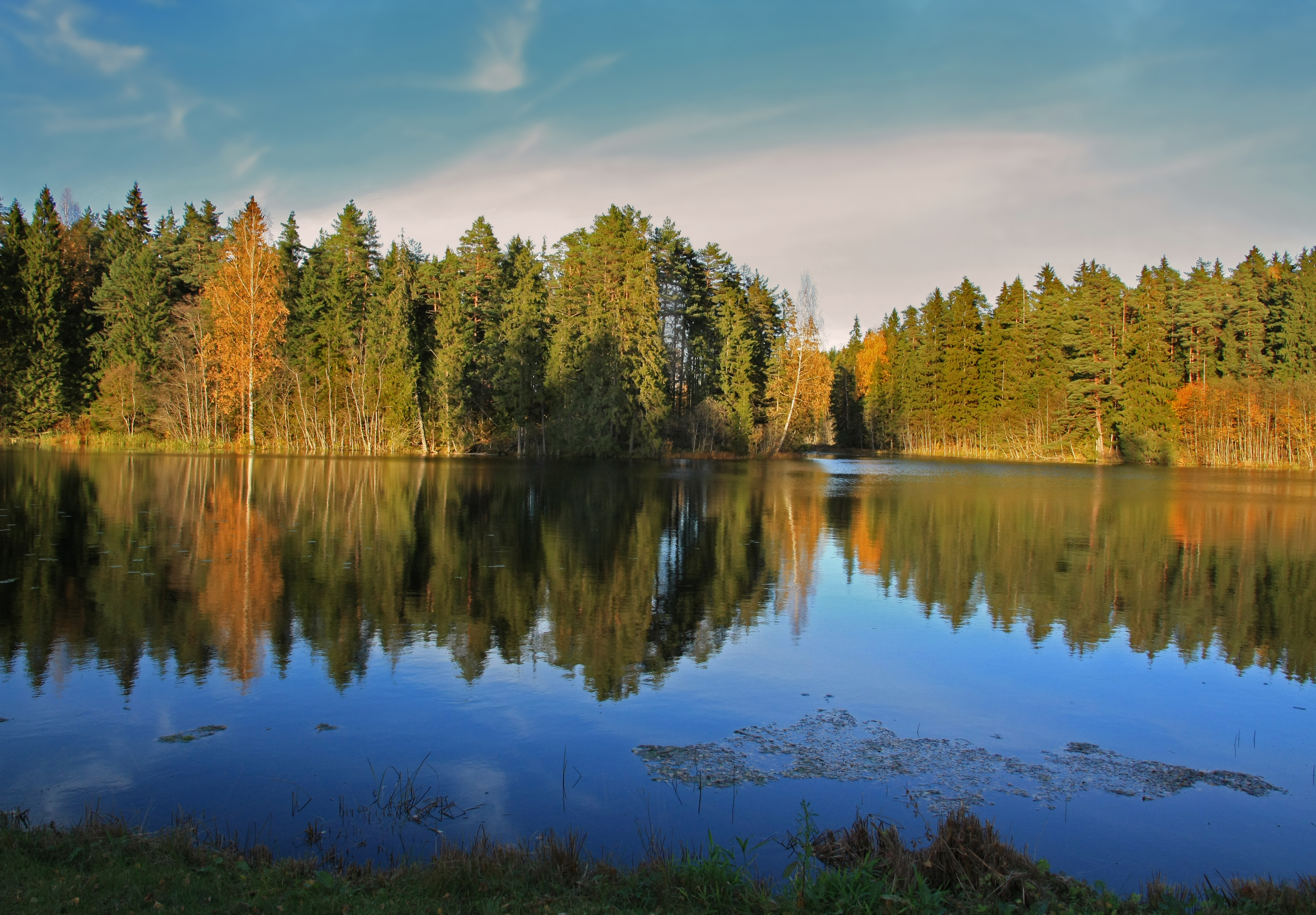 Lake Peräjärv in Southern Estonia